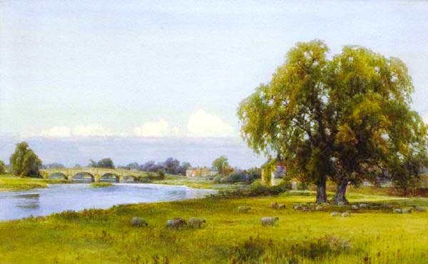 Derbyshire's Swarkestone Bridge with sheep by Harold Gresley